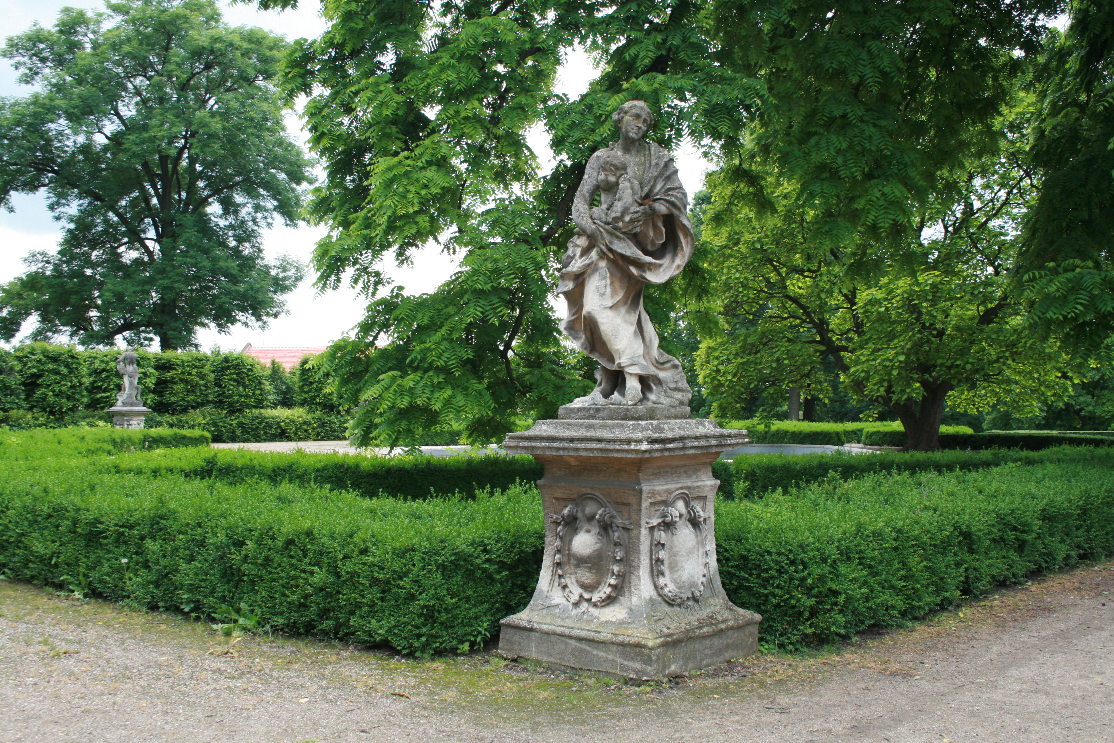 Baroque castle in Slavkov u Brna (Austerlitz). Statue in the castle park.